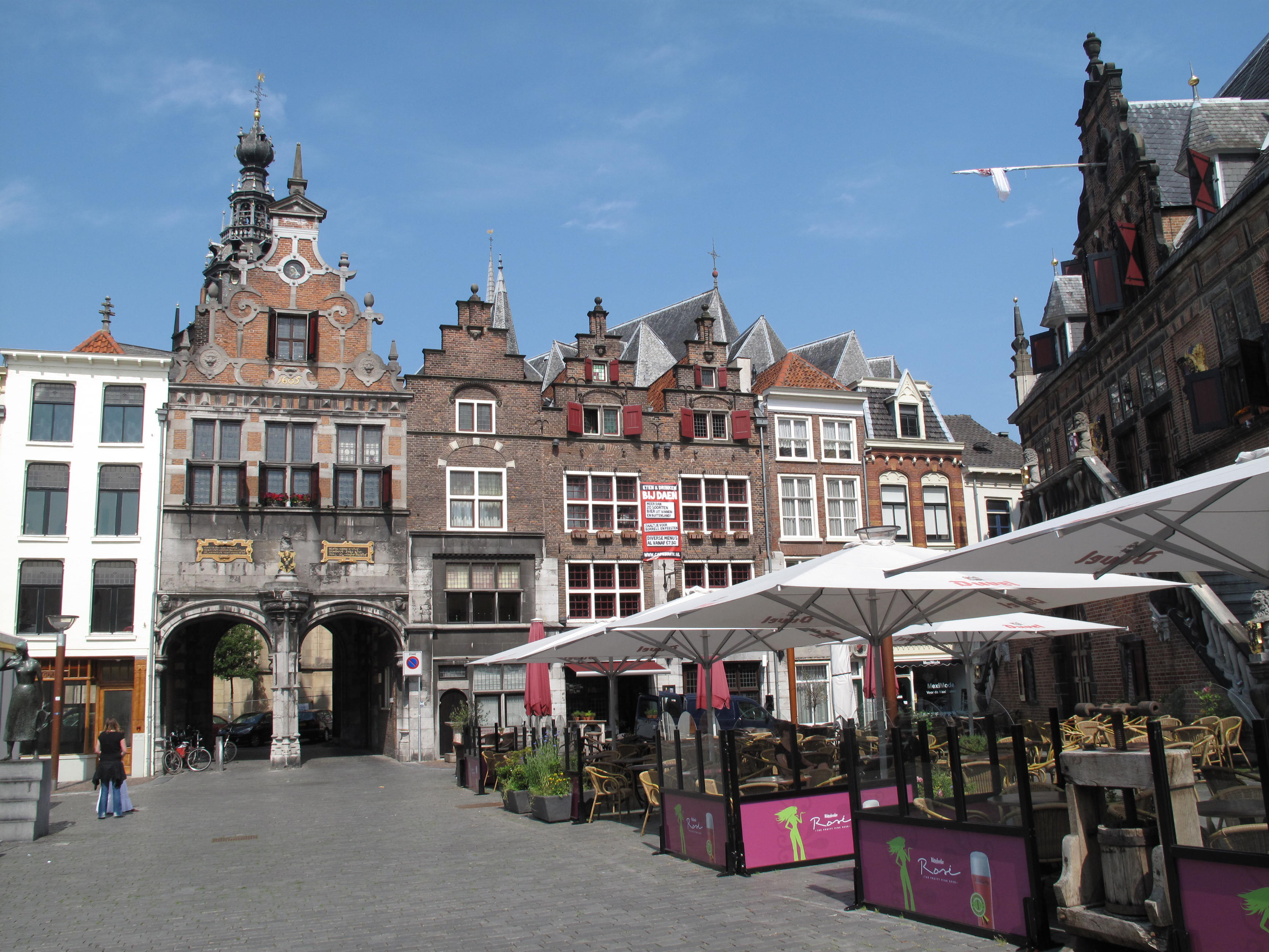 Nijmegen, monumental houses near Sint Stevenskerk